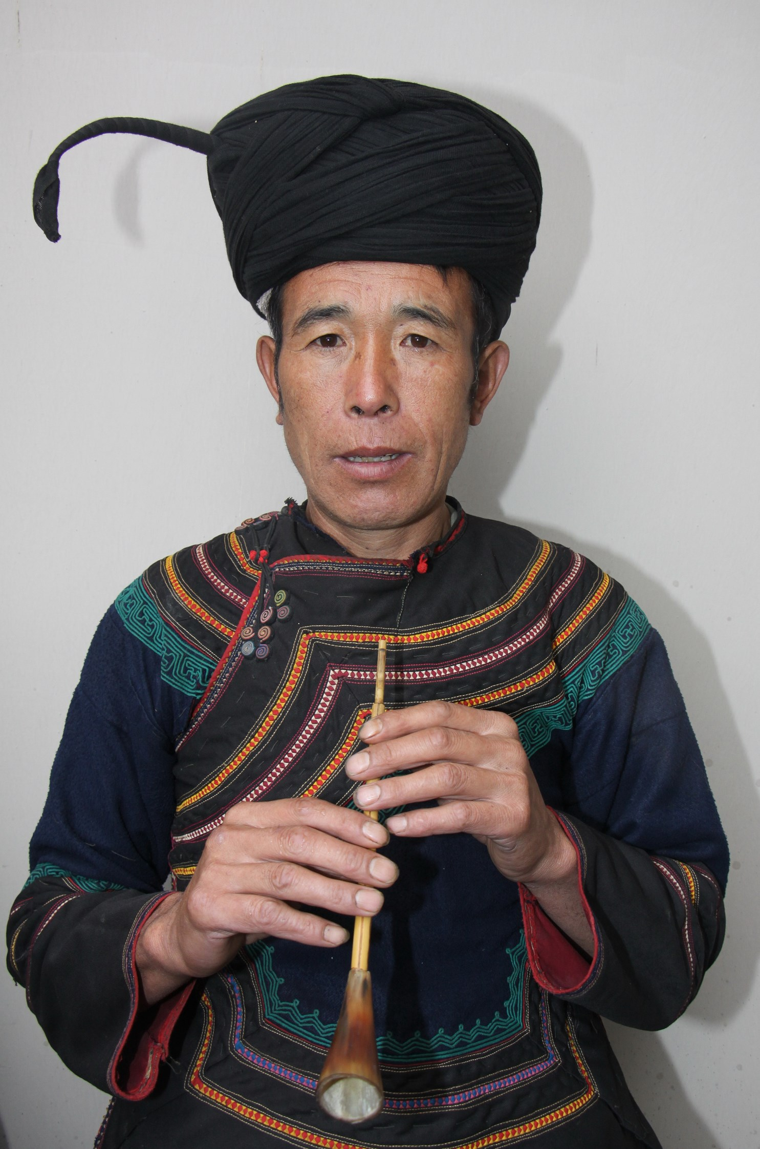 00 Yi minority in traditional